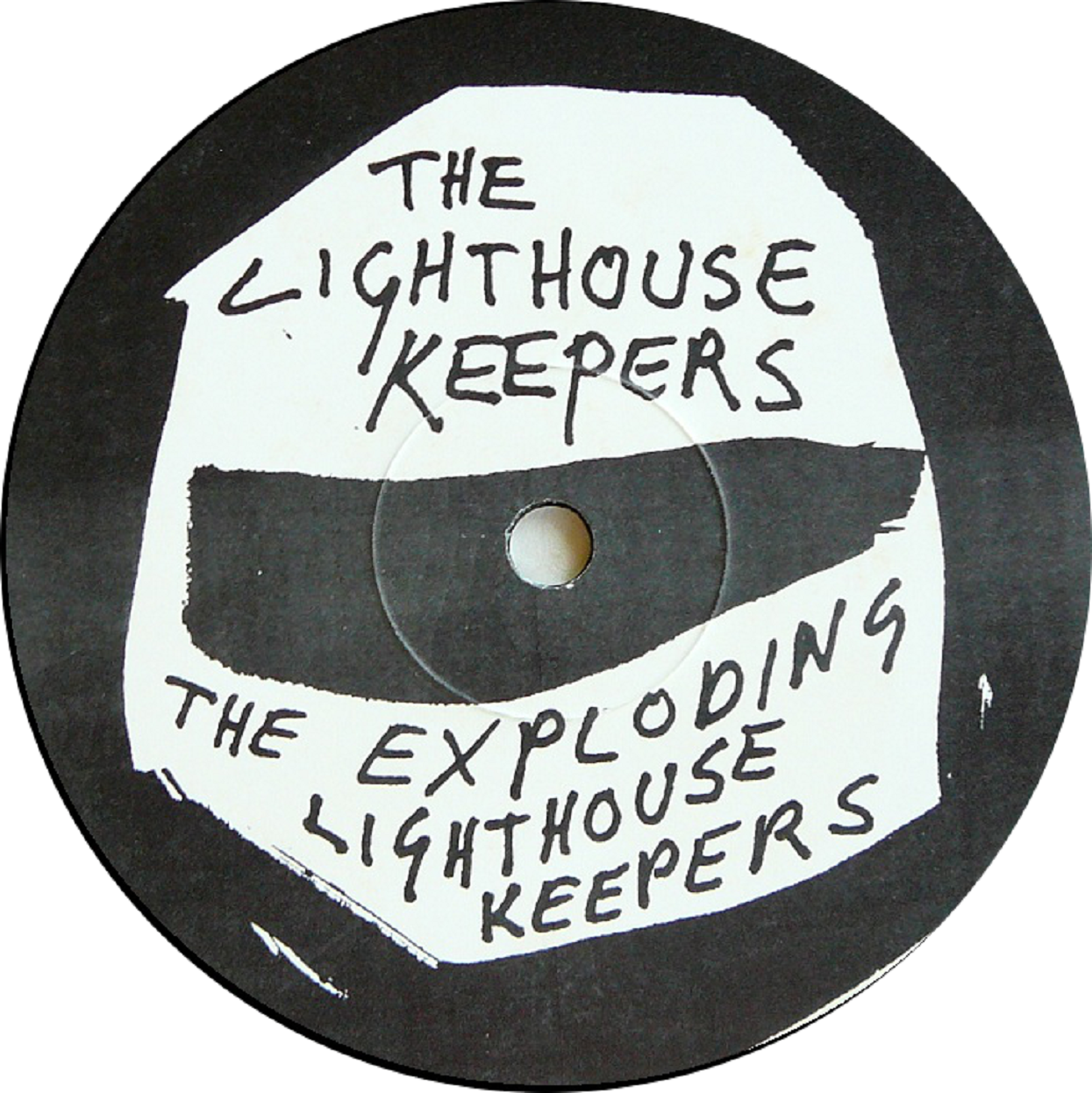 Photograph of A side of a custom printed record label for the Lighthouse Keepers' 12 inch EP/mini album "The Explding Lighthouse Keepers" released independently by their Guthugga Pipeline label in 1983. Original artwork uncredited.